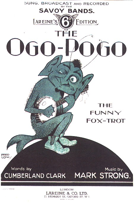 Sheet music cover for "The Ogo-Pogo, The Funny Fox-Trot", words by Cumberland Clark and music by Mark Strong. This song inspired the lake monster ogopogo's name.